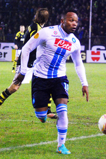 Zúñiga during AIK-Napoli, UEFA Europa League 2012-2013.